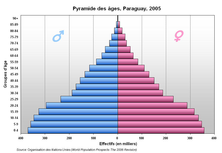 Paraguay Population pyramid, 2005